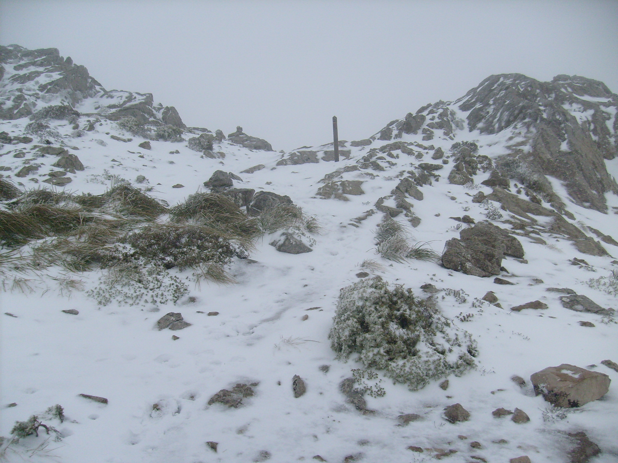 Coll de Ses Cases de Sa Neu (Massanella) with a wooden GR signpost